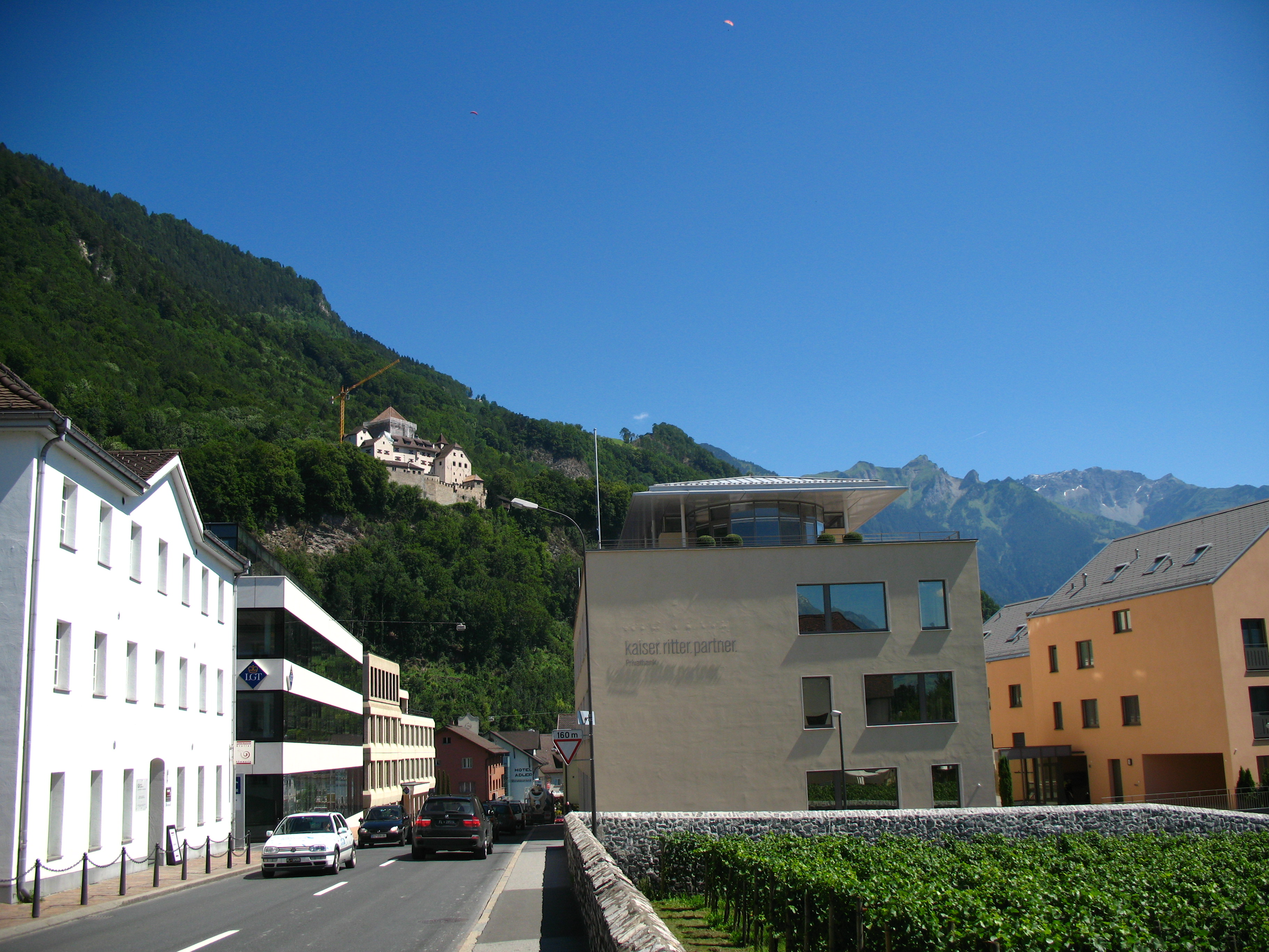 Gentleman's Lane, Vaduz, Liechtenstein